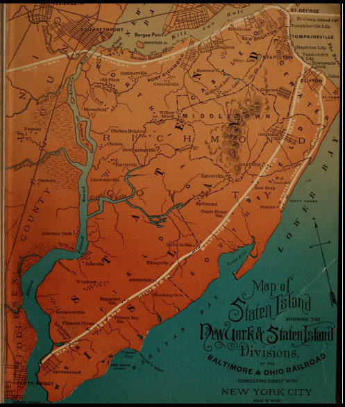 This is a Map of the Staten Island Rapid Transit Company from 1885 that was contained in the book "Who Were There And What Was Said." This map illustrates the plans to expand the Staten Island Railway from a single line to three lines centered at St. George Terminal. This map is contemporaneous and is one of the first maps showing the railway under the control of the Baltimore and Ohio Railroad.